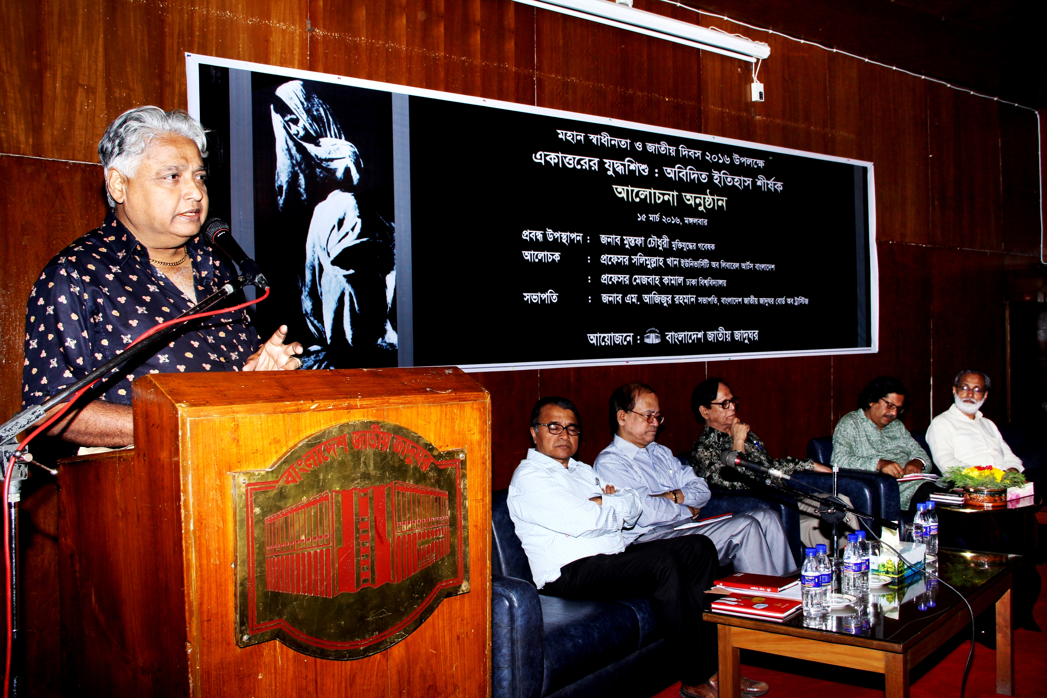 Photograph of Mustafa Chowdhury, writer of "UNCONDITIONAL LOVE : STORY OF ADOPTION OF 1971 WAR BABIES" (’৭১-এর যুদ্ধশিশু: অবিদিত ইতিহাস), speaking in a seminar on his book, held in Dhaka, Bangladesh